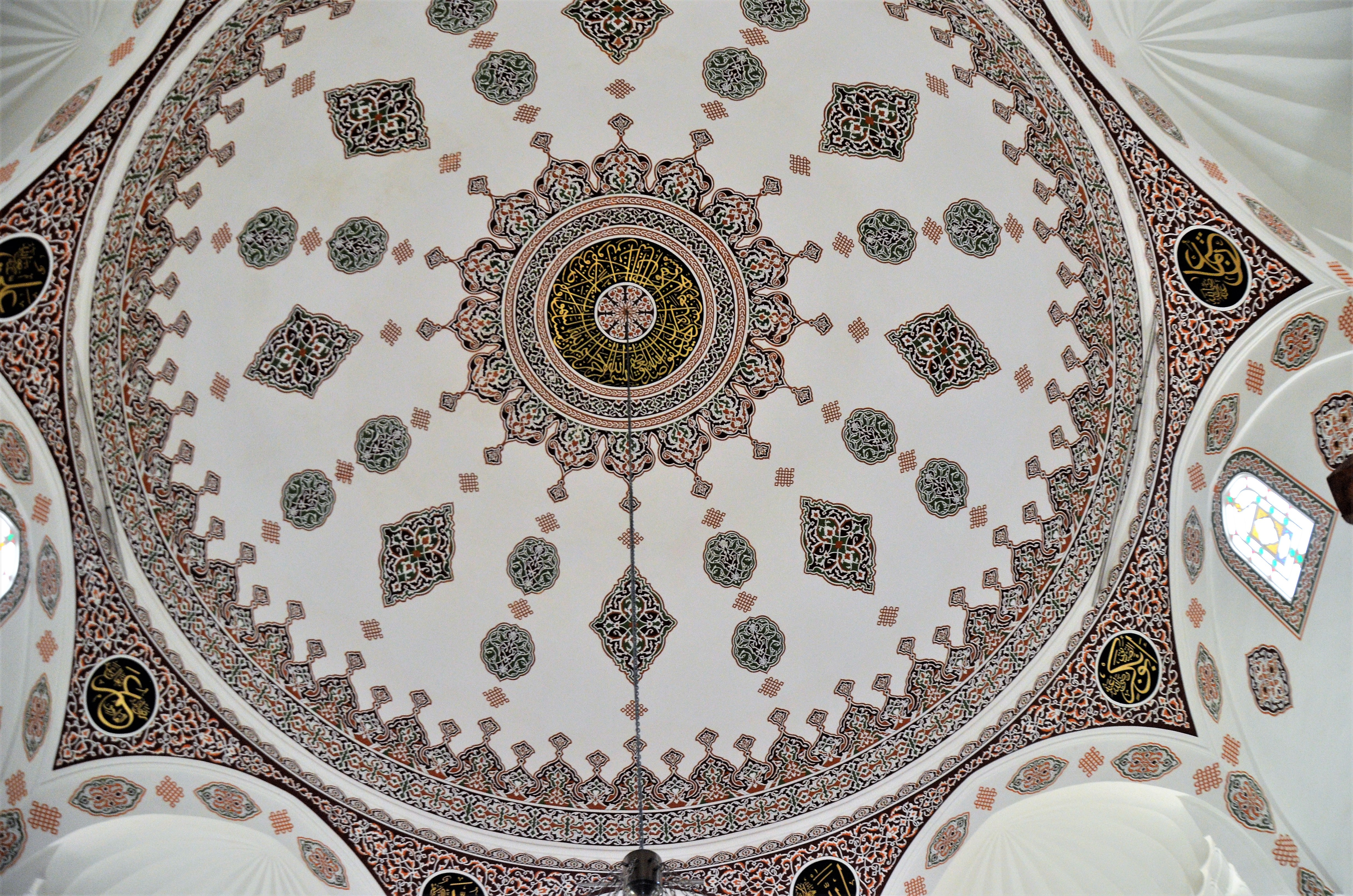 Piri Mehmet Pasha Mosque in Silivri, Istanbul Province, Turkey. Decorated dome interior featuring the Quran vers ʾĀyat al-Kursī ("The Throne Verse") in the center.